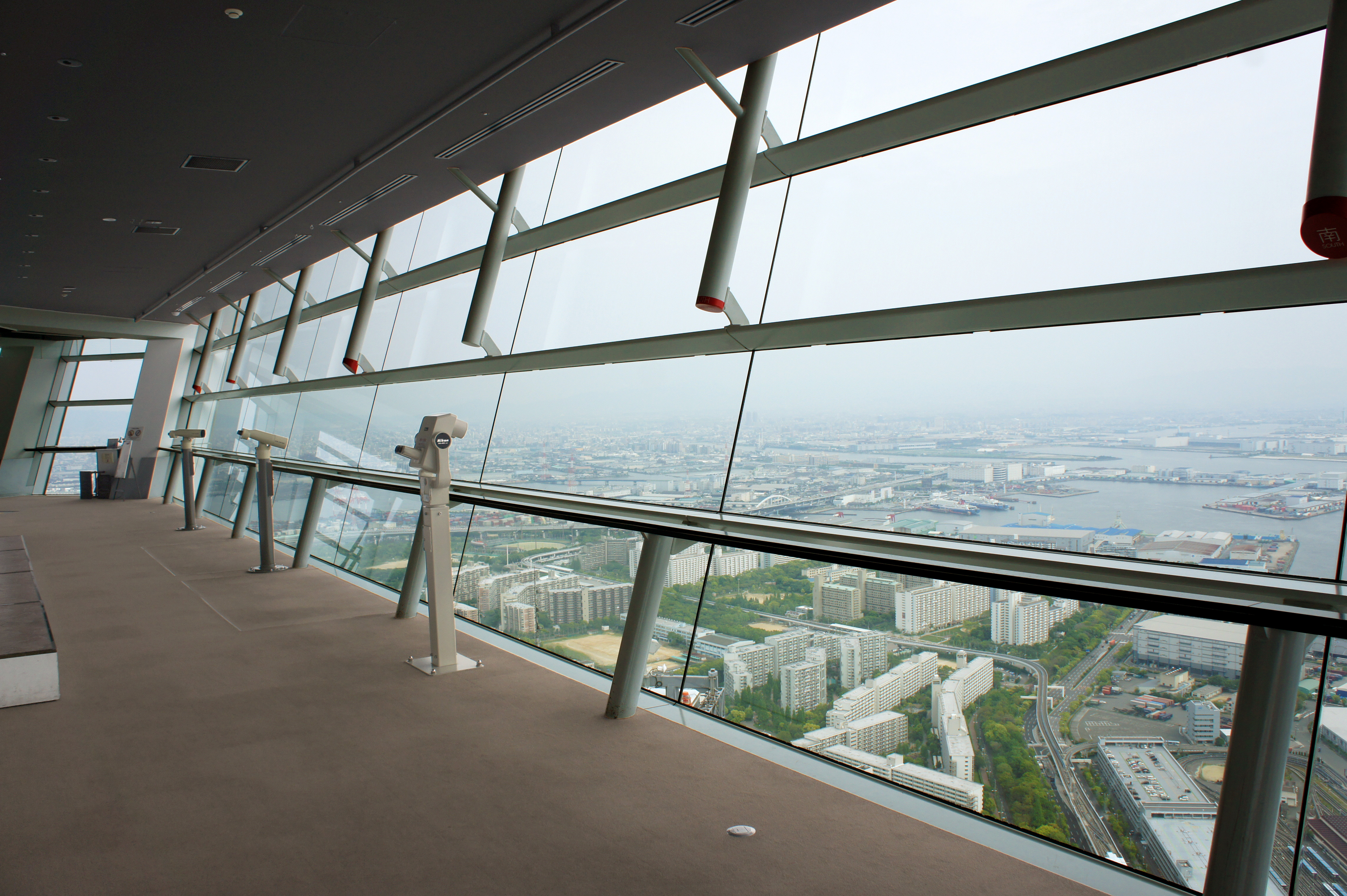 Osaka Prefecture Goverment Sakishima Office Observatory (Cosmo Tower Observatory), 1-14-16 Nanko-Kita Suminoe-ku Osaka-City Osaka Japan.